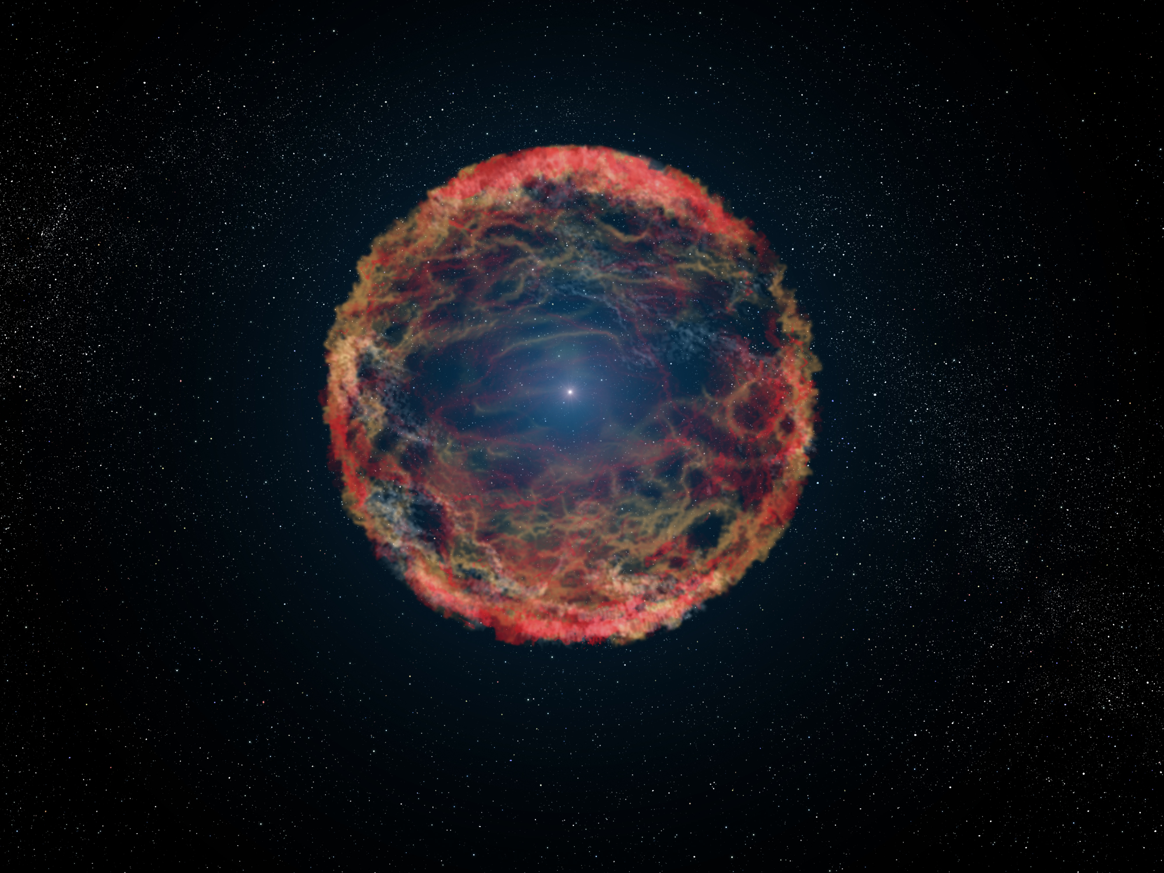 This is an artist's impression of supernova 1993J, an exploding star in the galaxy M81 whose light reached us 21 years ago. The supernova originated in a double-star system where one member was a massive star that exploded after siphoning most of its hydrogen envelope to its companion star. After two decades, astronomers have at last identified the blue helium-burning companion star, seen at the center of the expanding nebula of debris from the supernova. The NASA/ESA Hubble Space Telescope identified the ultraviolet glow of the surviving companion embedded in the fading glow of the supernova.